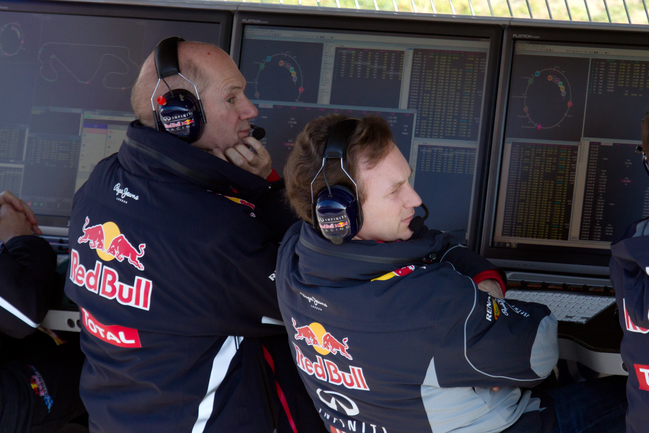 Formula One 2013 Catalonia test (19-22 February): Christian Horner (right) and Adrian Newey (left)